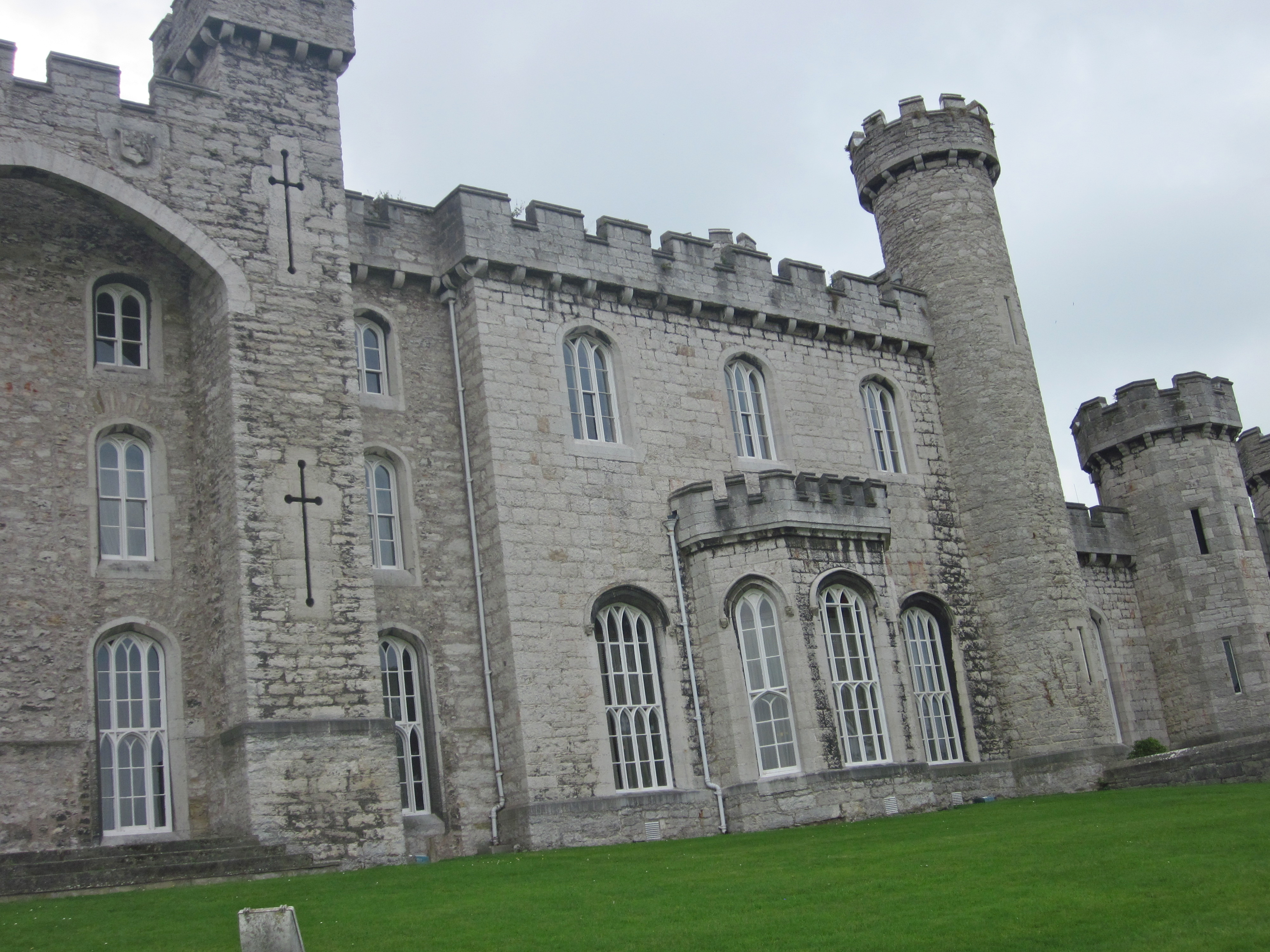 Bodelwyddan Castle. Gothic extension probably 1802-8 on NW.